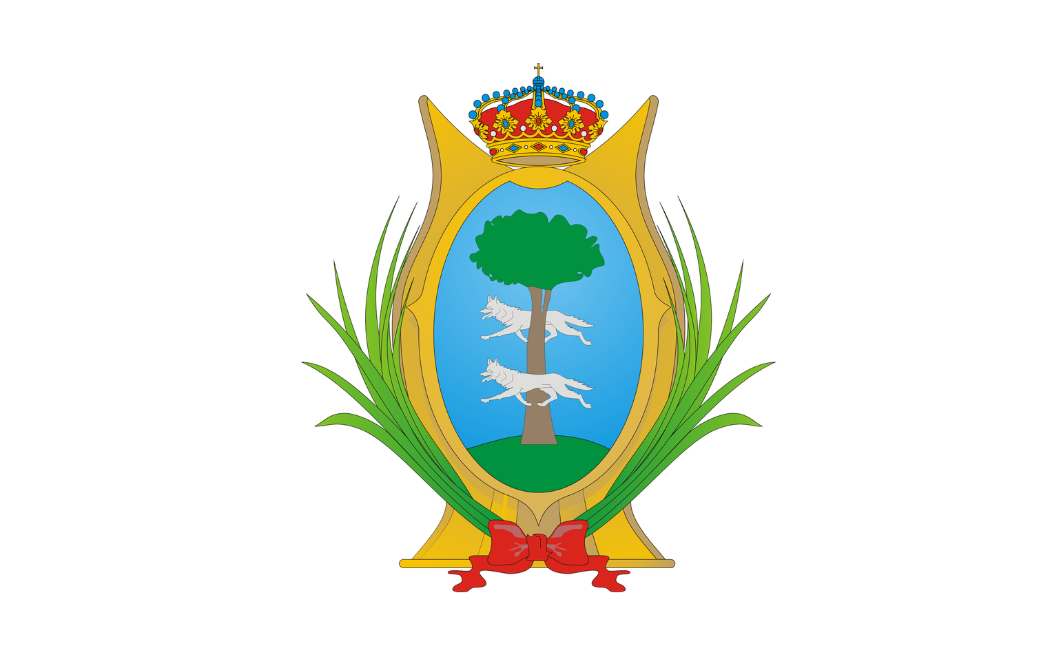 Flag of Durango